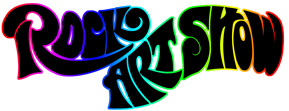 N/A